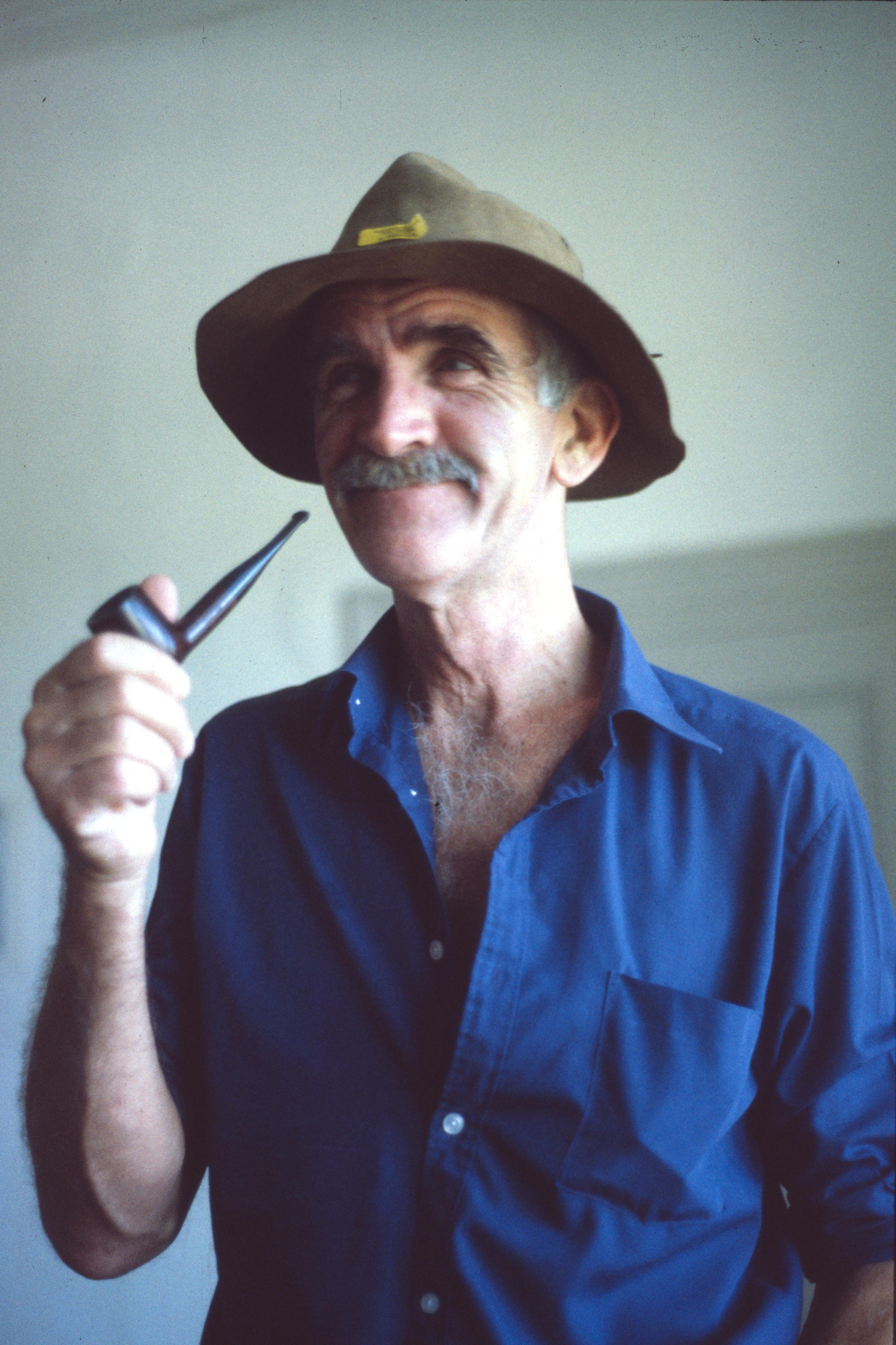 Don Maclennan and pipe. Taken at his home in Grahamstown, South Africa.